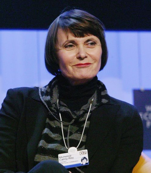 DAVOS/SWITZERLAND, 24JAN07 - Micheline Calmy-Rey, President of the Swiss Confederation and Federal Councillor of Foreign Affairs, Switzerland, welcomes the participants at the Annual Meeting 2007 of the World Economic Forum in Davos, Switzerland, January 24, 2007. Copyright by World Economic Forum by